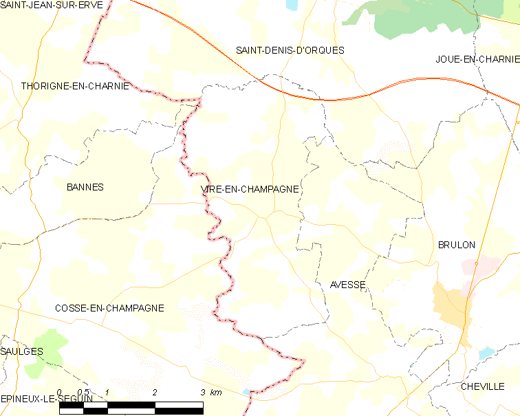 Map of French municipality